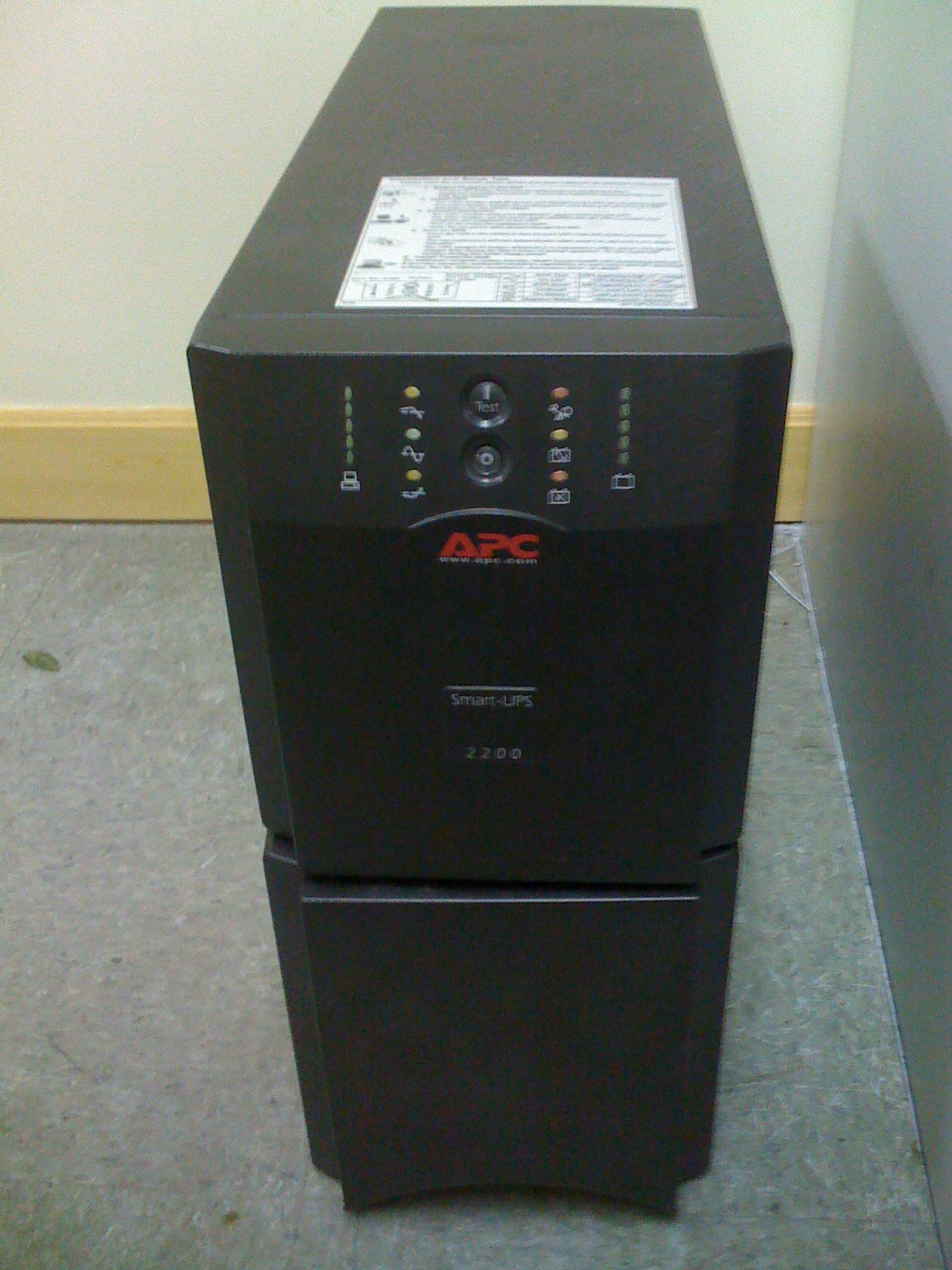 This is a digital image of a UPS.